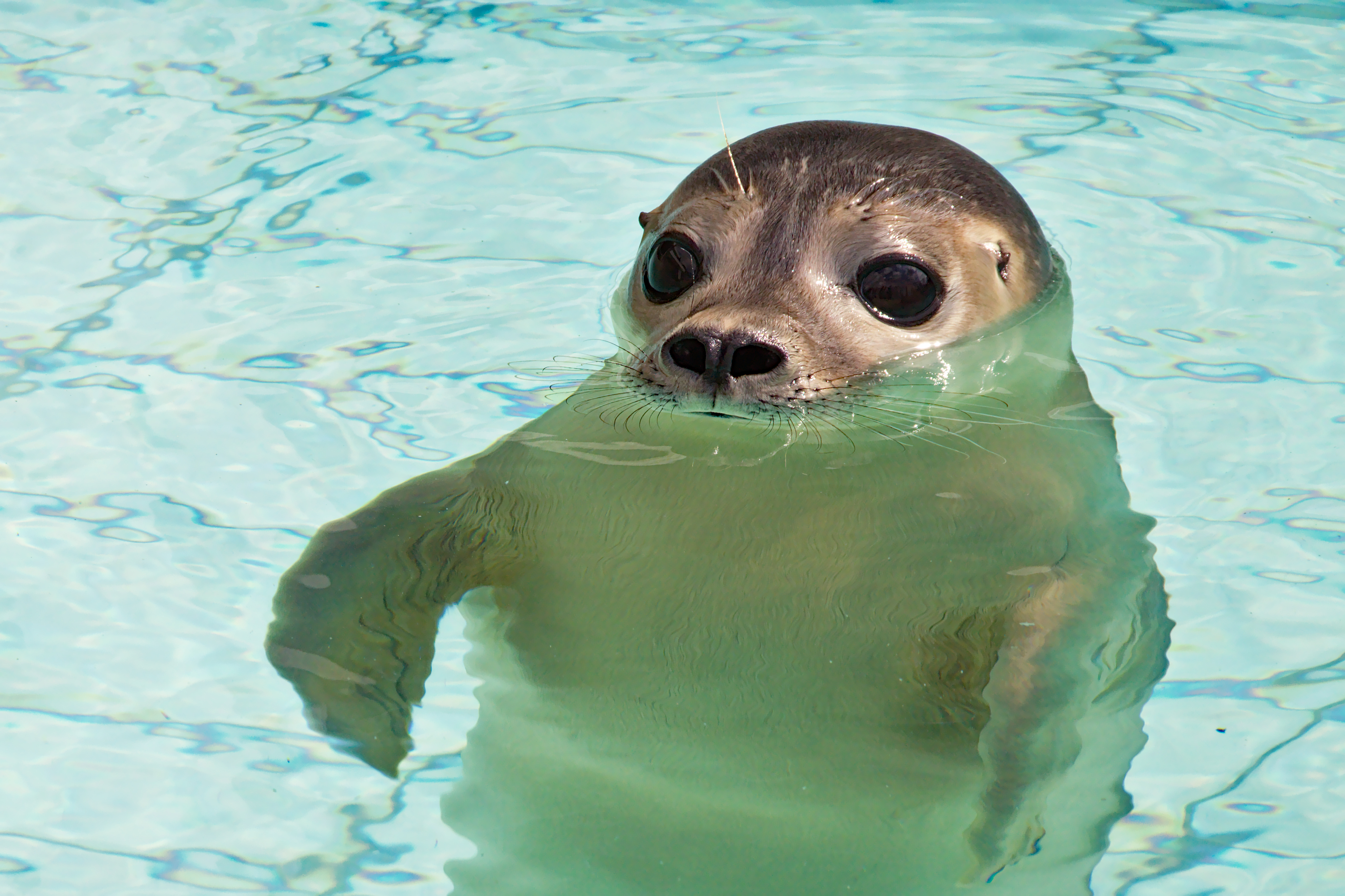 by Familie Weber